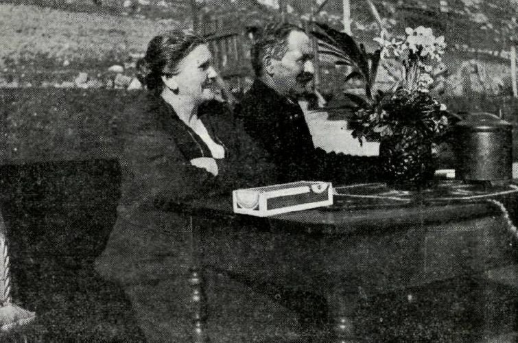 Jóannes and Guðny Patursson in their garden in Kirkjubøur, Faroe Islands.